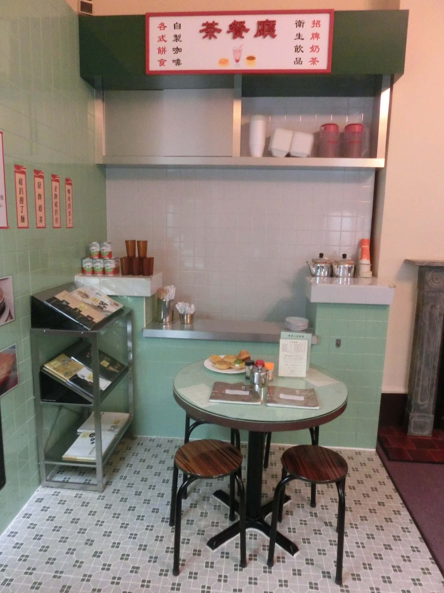 香港茶具文物館 Museum of Tea ware 旗杆屋 Flagstaff House, Hong Kong Park, Hong Kong